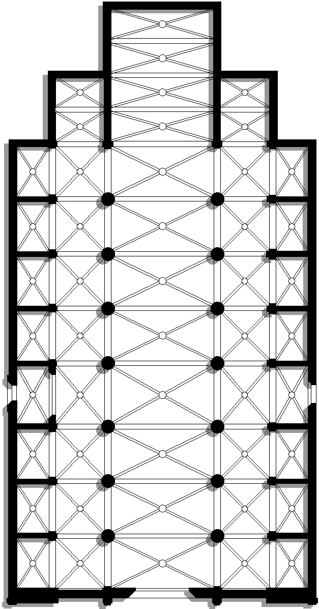 Floorplan of the cathedral of Palma de Mallorca (Spain). It is a typical hallenkirche